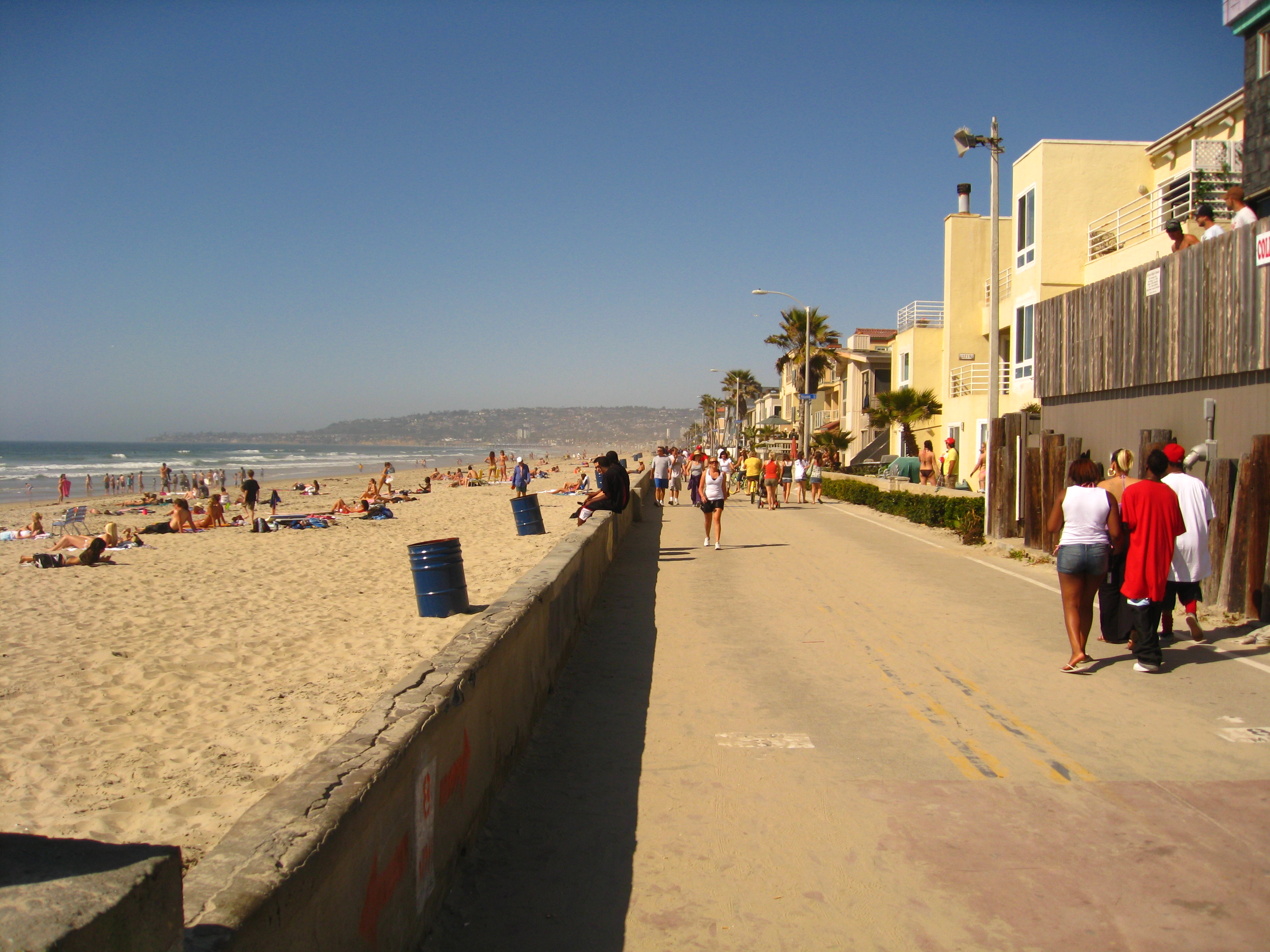 IMG_3997, Boardwalk, Mission Beach, San Diego, CA Mission Beach